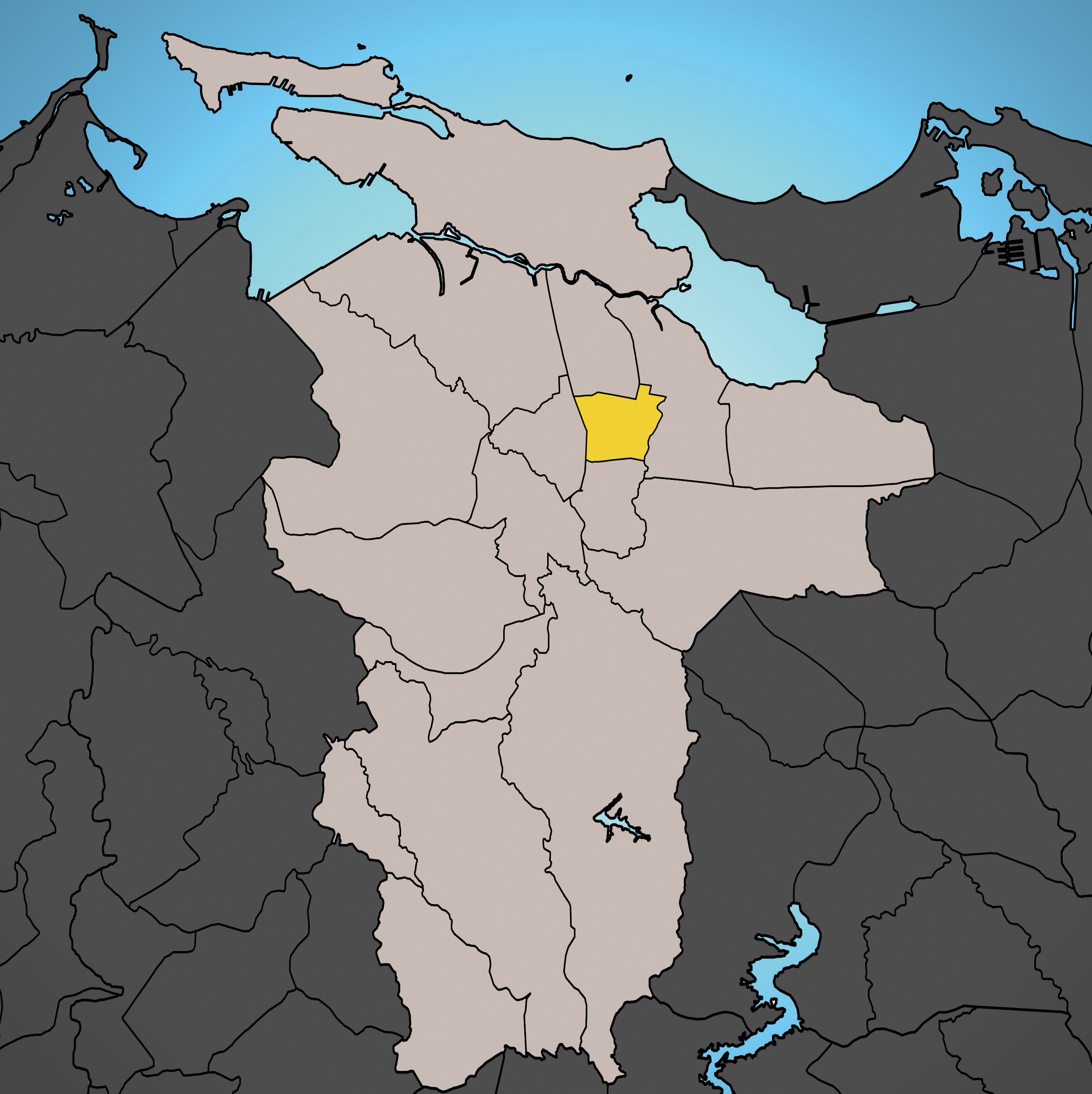 Created missing Locator map based on original master map by Javierpuertorico